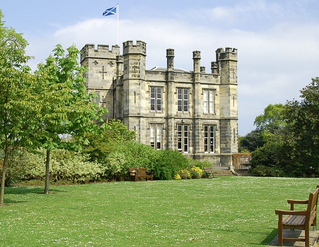 St Andrews museum St Andrews museum with Saltire flying proud.